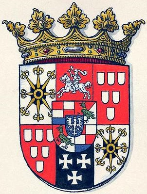 Familienwappen des deutschen bzw. österreichischen Adelsgeschlechtes der Grafen von Degenfeld-Schonburg